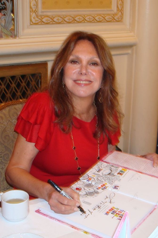 Marlo Thomas signing "Free to Be You and Me"